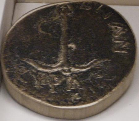 Replica of an ancient coin of the city of Ankara in modern day Turkey. This is not the original coin, it is an oversized replica in a display in the Museum of Anatolian Civilization. (You can see for yourself in this image on Flickr).